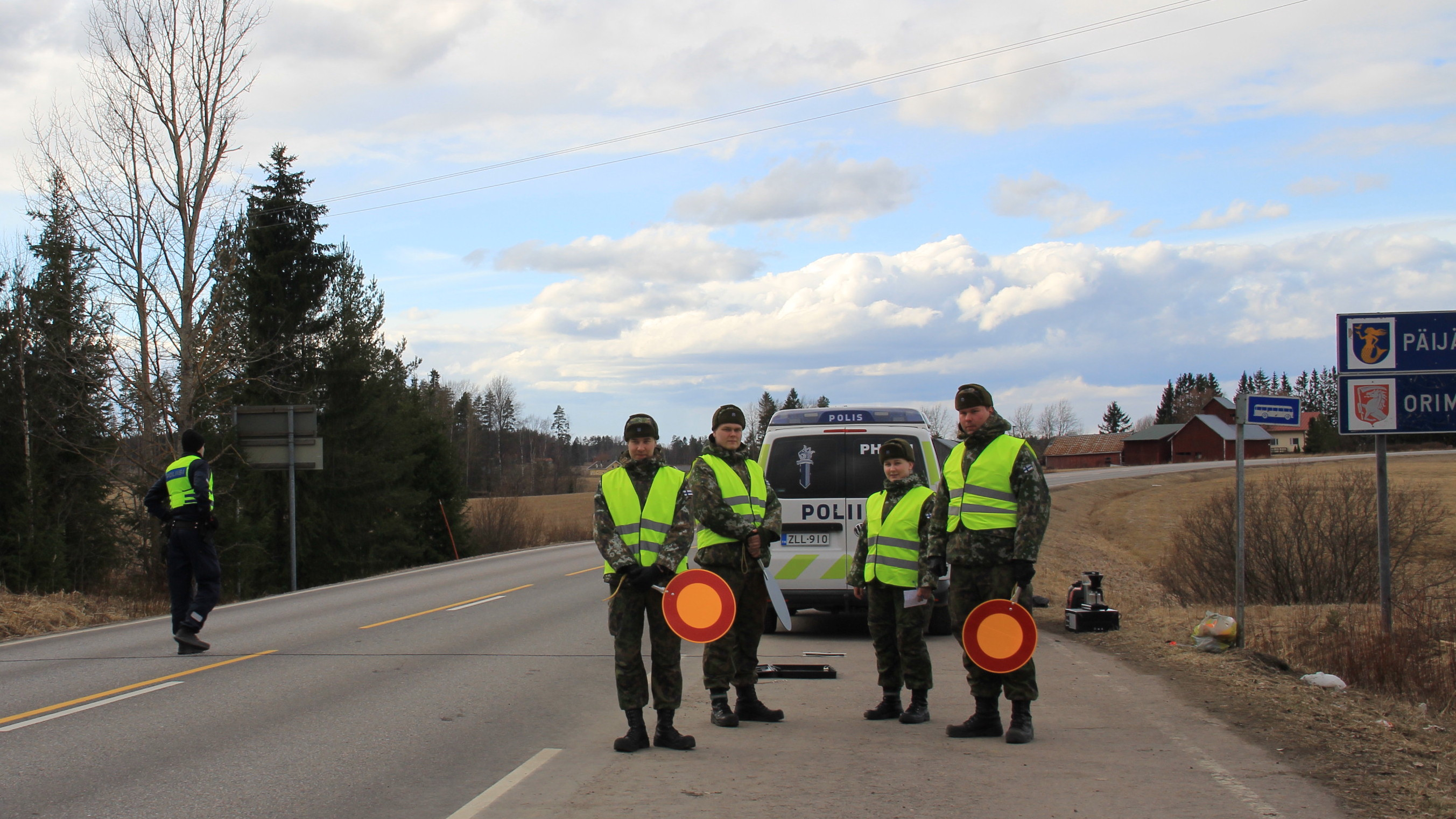 Coronavirus pandemic in Finland, checkpoint between Uusimaa and Päijänne Tavastia regions on Finnish national road 167, photon taken from Myrskylä towards Orimattila, Finnish national road 167, Finland. - Police is patrolling, conscripts and female volunteers in armed service are assisting by stopping the traffic.